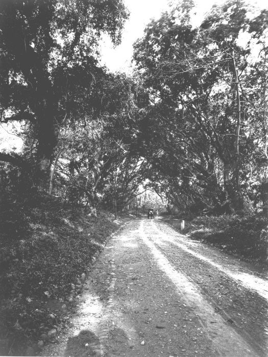 Nyamplung trees beside the road between Pelabuhan Ratu and Cisolok